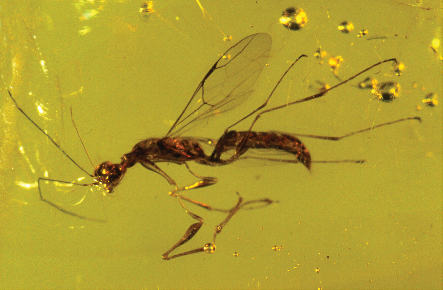 Dryinus grimaldii. Female specimen in lateral view (in GPJC, No. H-10-100). Length 6.3 mm.